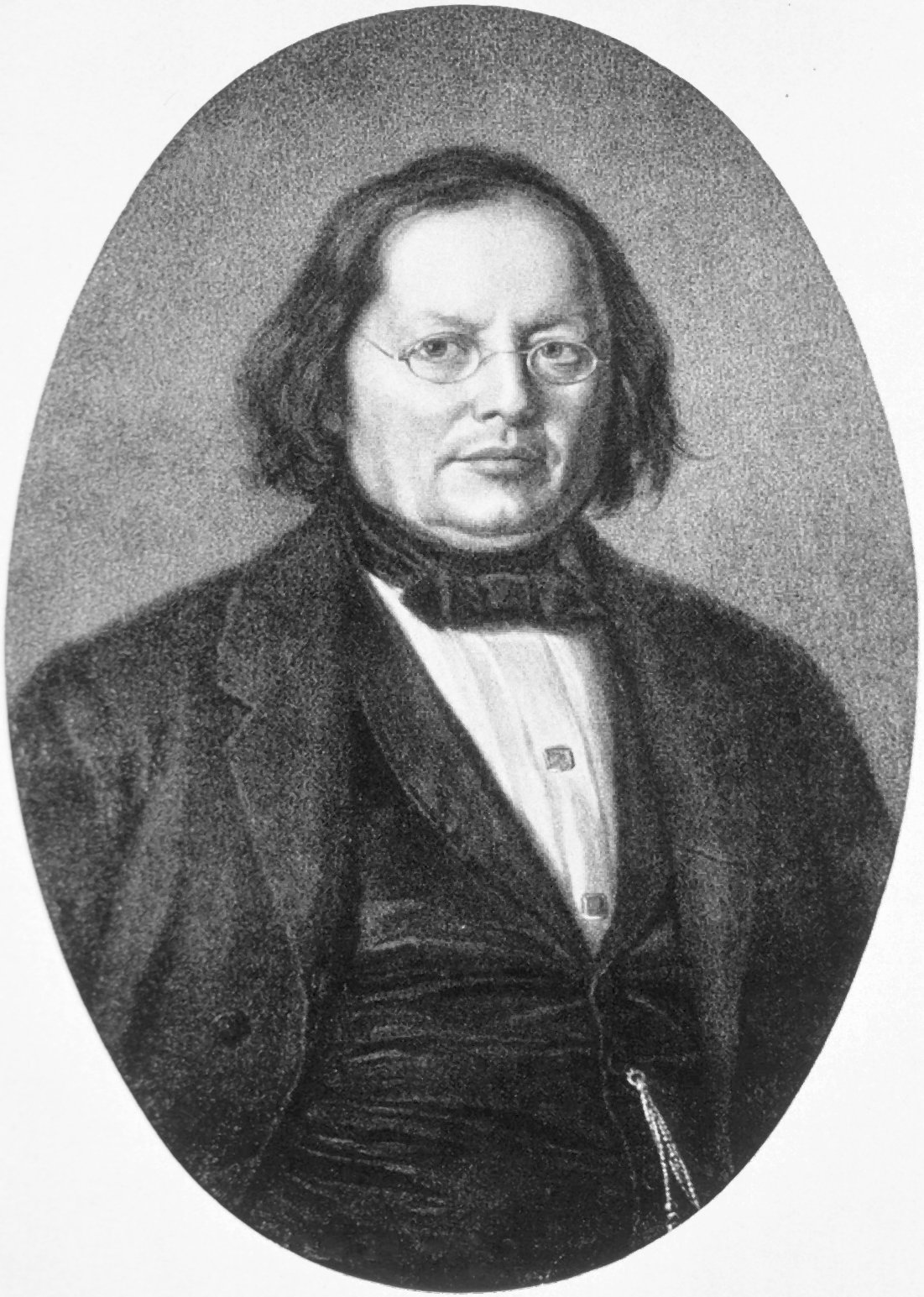 Joseph Škoda (10 December 1805 – 13 June 1881)